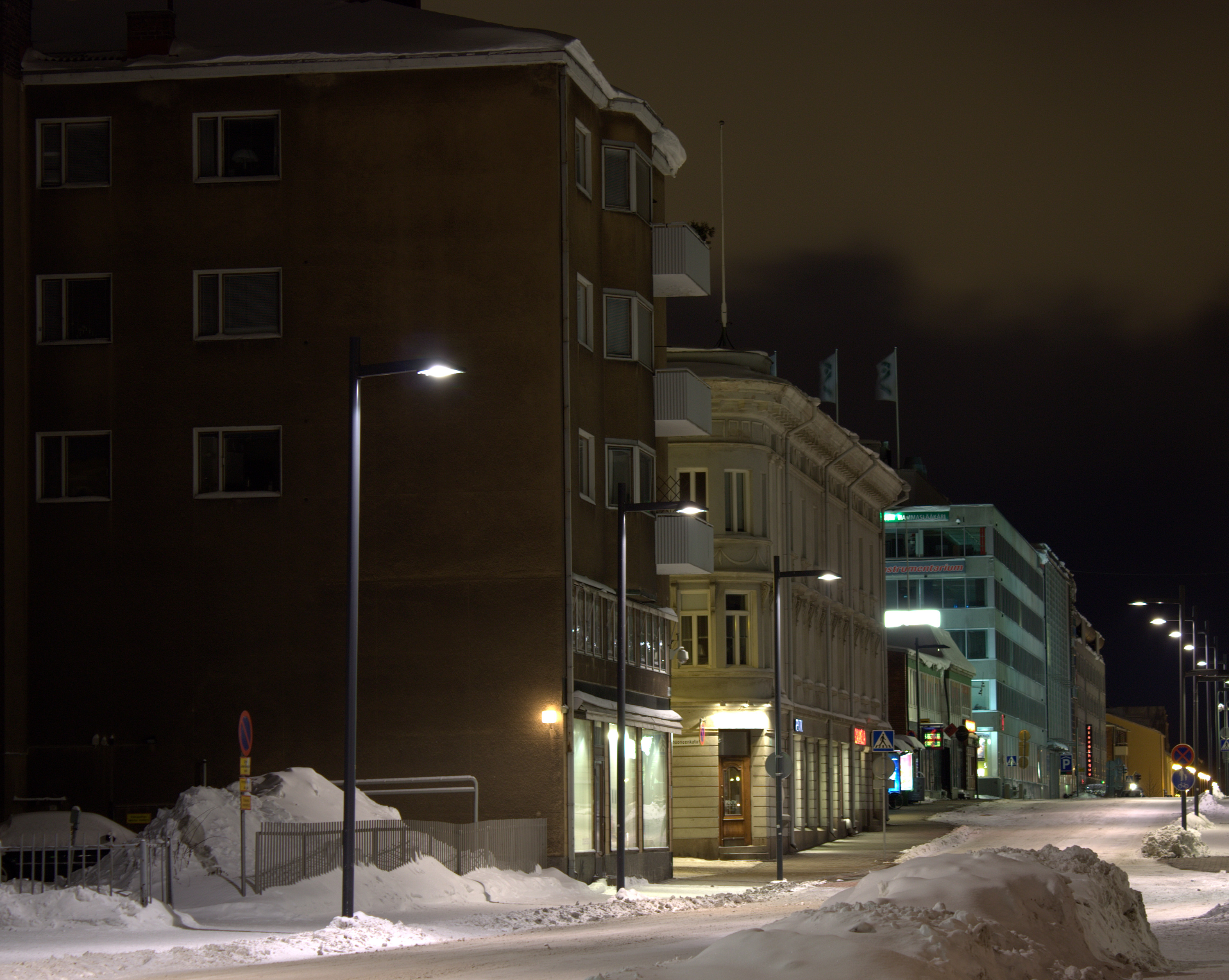 Torikatu street in Oulu.